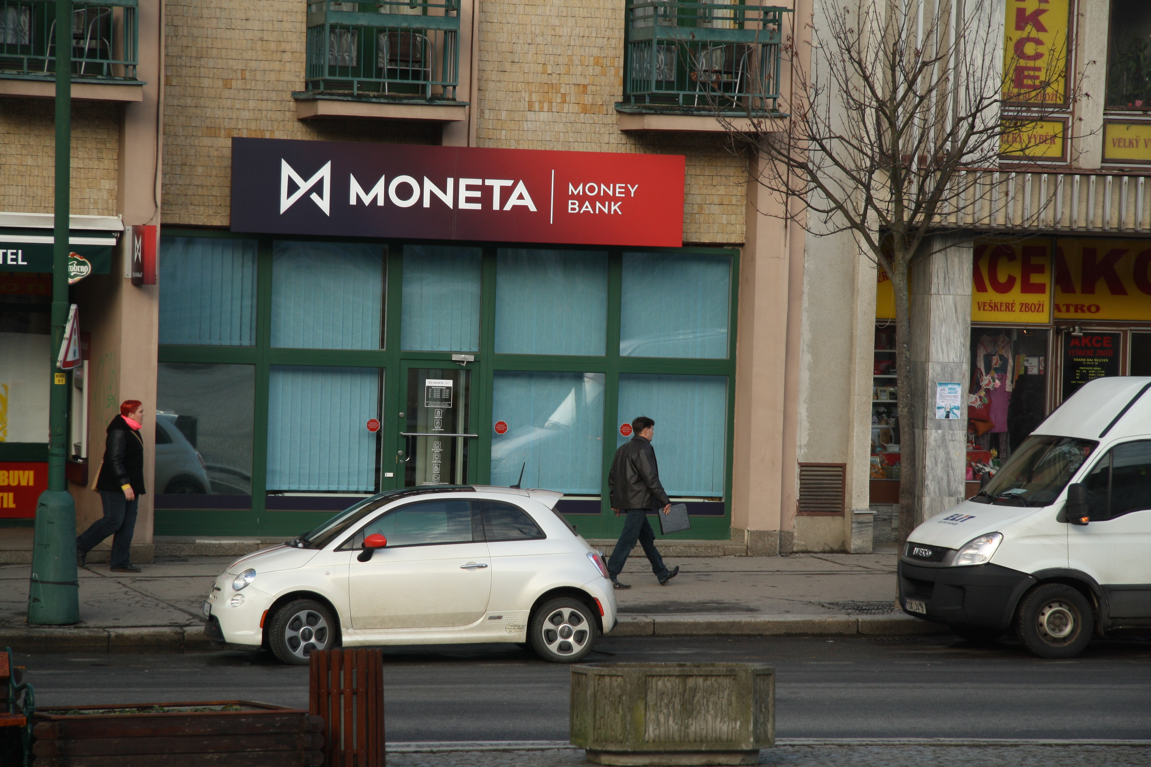 Moneta Money Bank branch in Třebíč, Třebíč District.